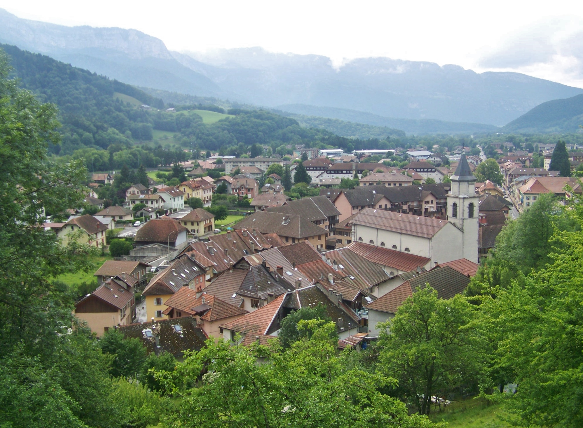 Panoramic sight of the French city of Faverges in Haute-Savoie, during a cloudy summer day.